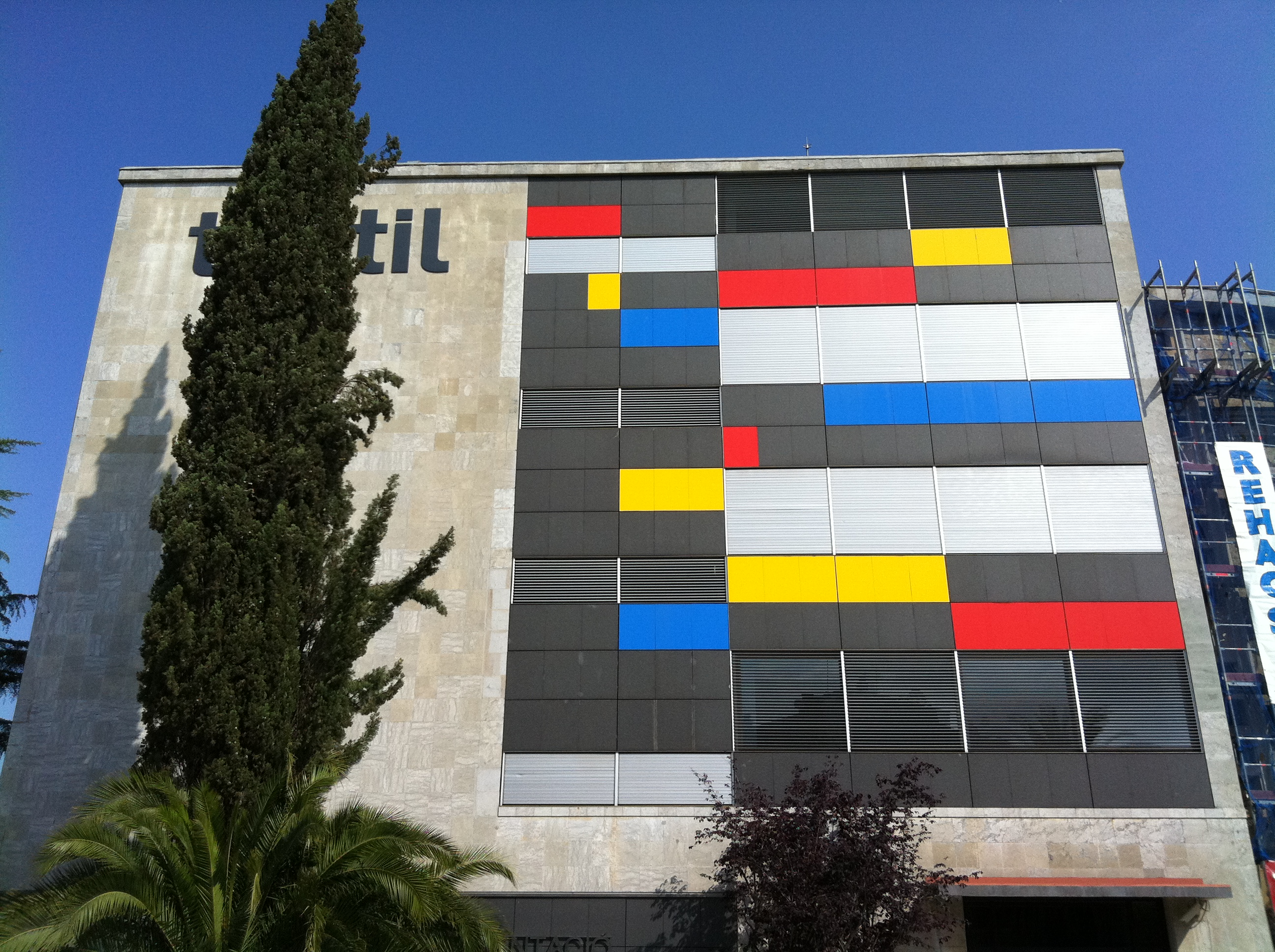 Documentation Center and Textile Museum of Terrassa